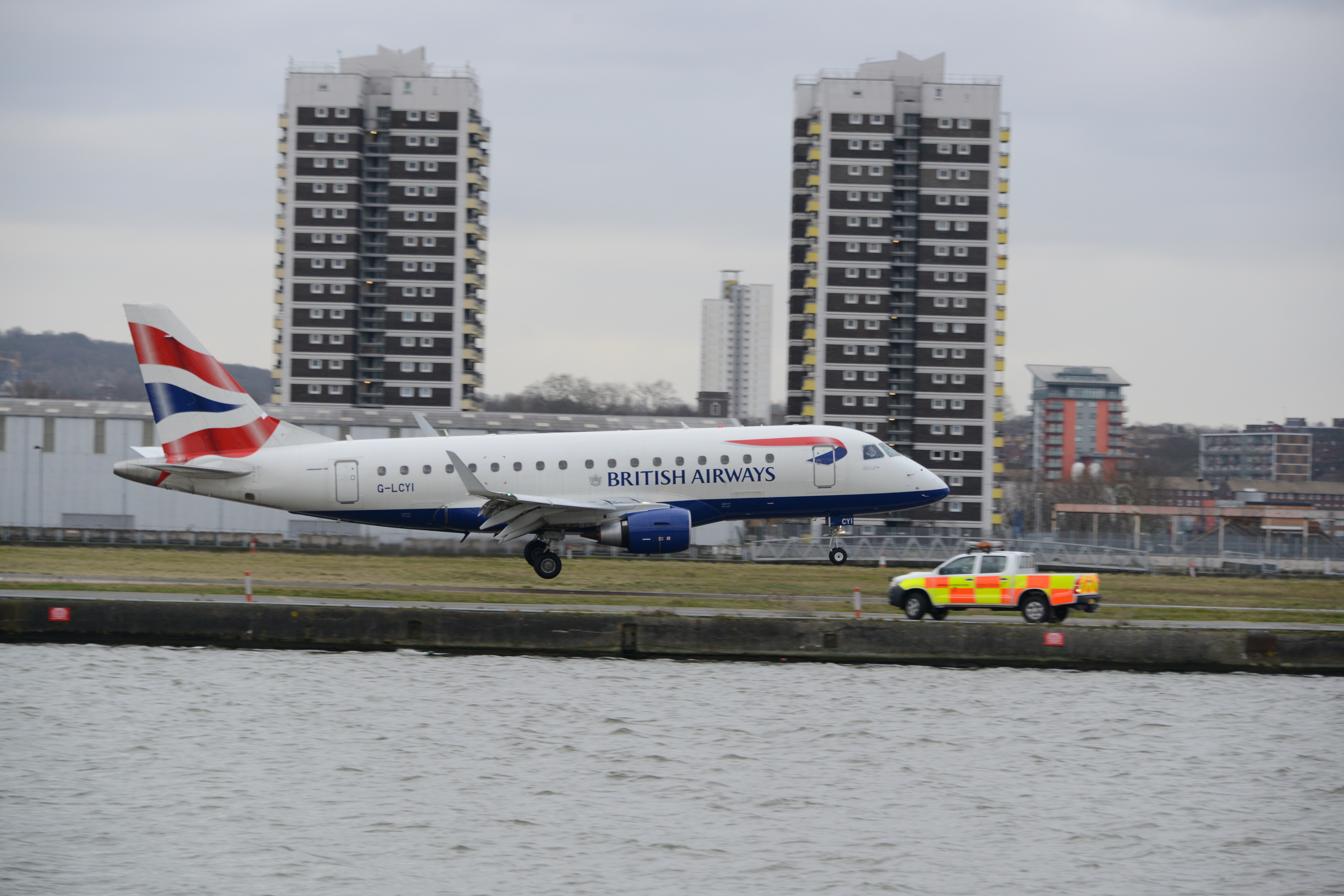 BA City Flyer Embraer ERJ-170 coming in to land. G-LCYI